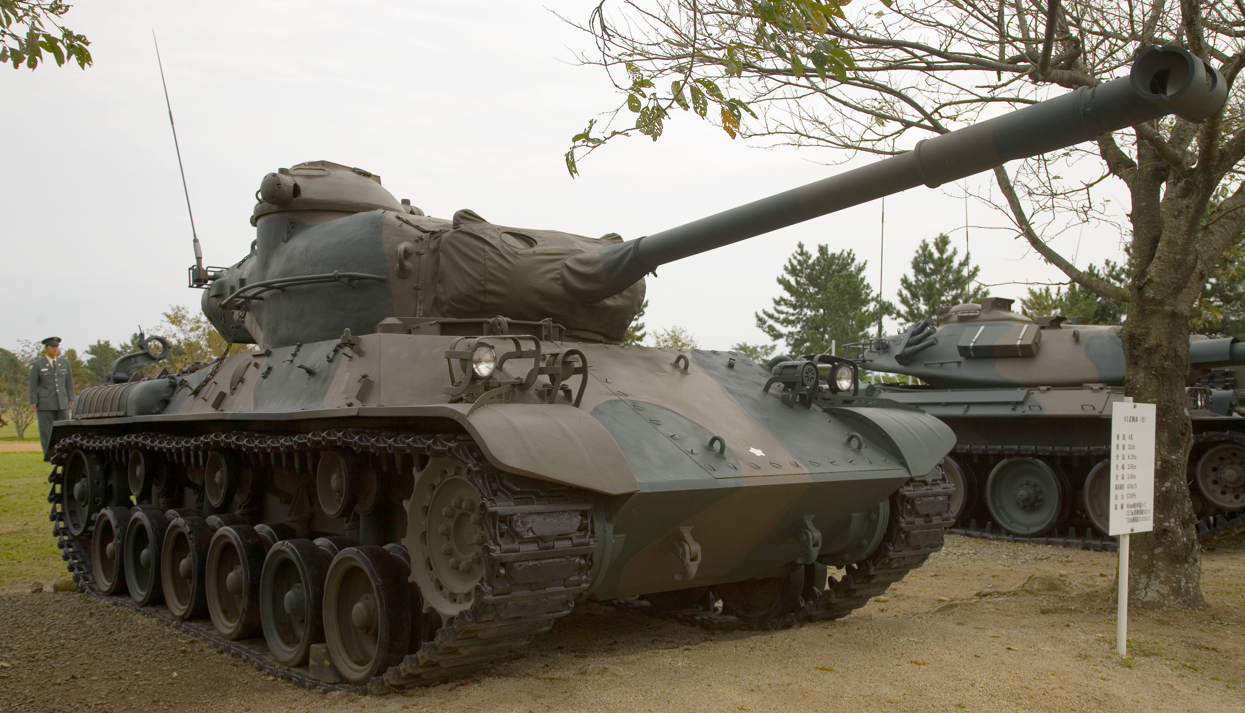 A Type 61 tank on display at the JGSDF Ordnance School in Tsuchiura, Kanto, Japan.